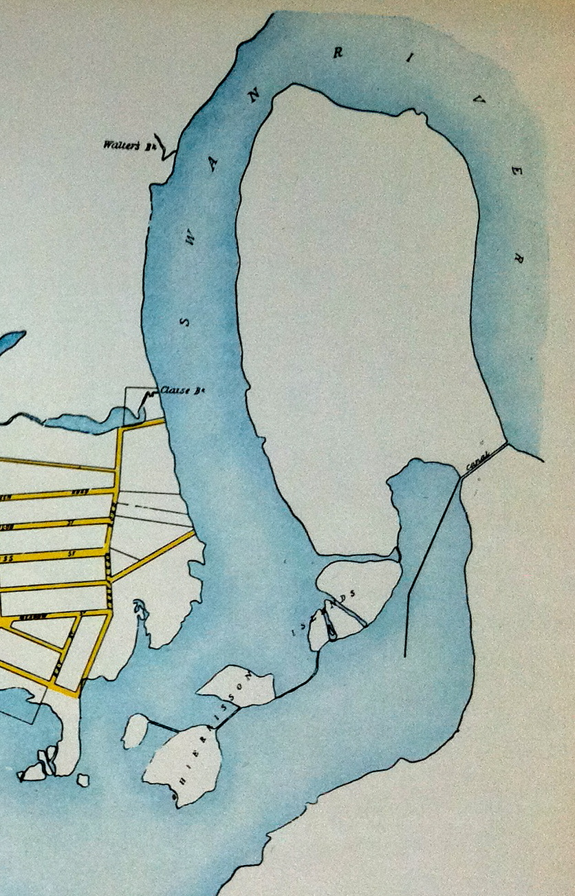 The Burwsood Island, Burswood canal and Heirrison island detail from a larger Perth Water map